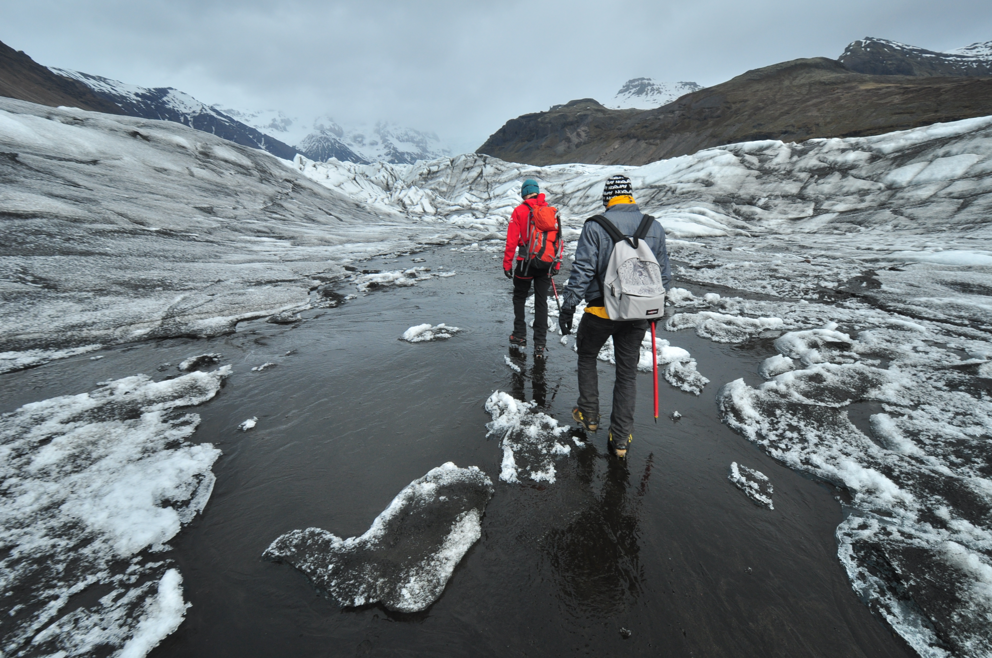 Hiking the Skaftafellsjökull